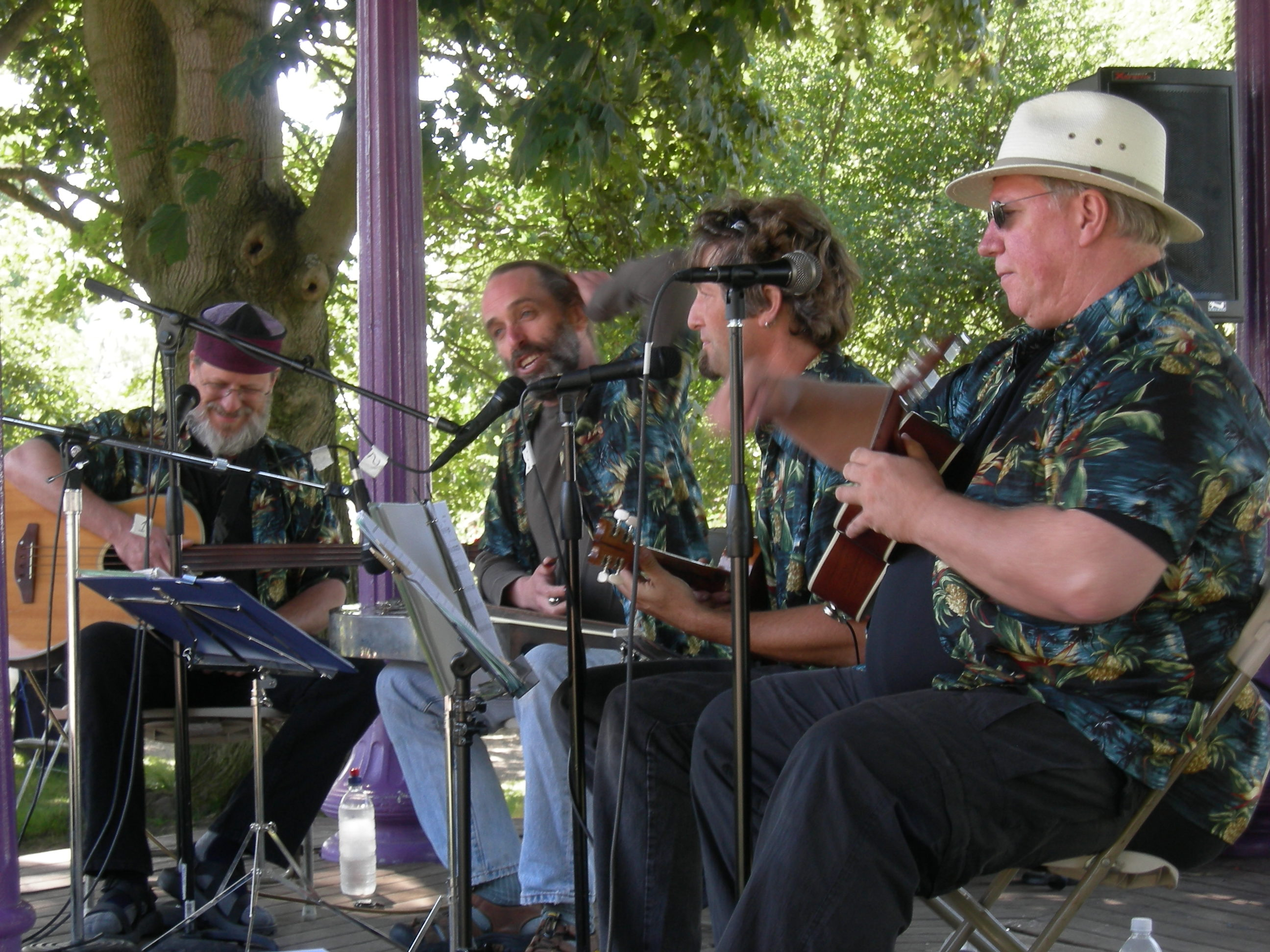 The Na Hila Hila boys play Hawaiian music at Seattle Tilth Harvest Festival, Meridian Park (adjacent to the Good Shepherd Center), Wallingford, Seattle, Washington.